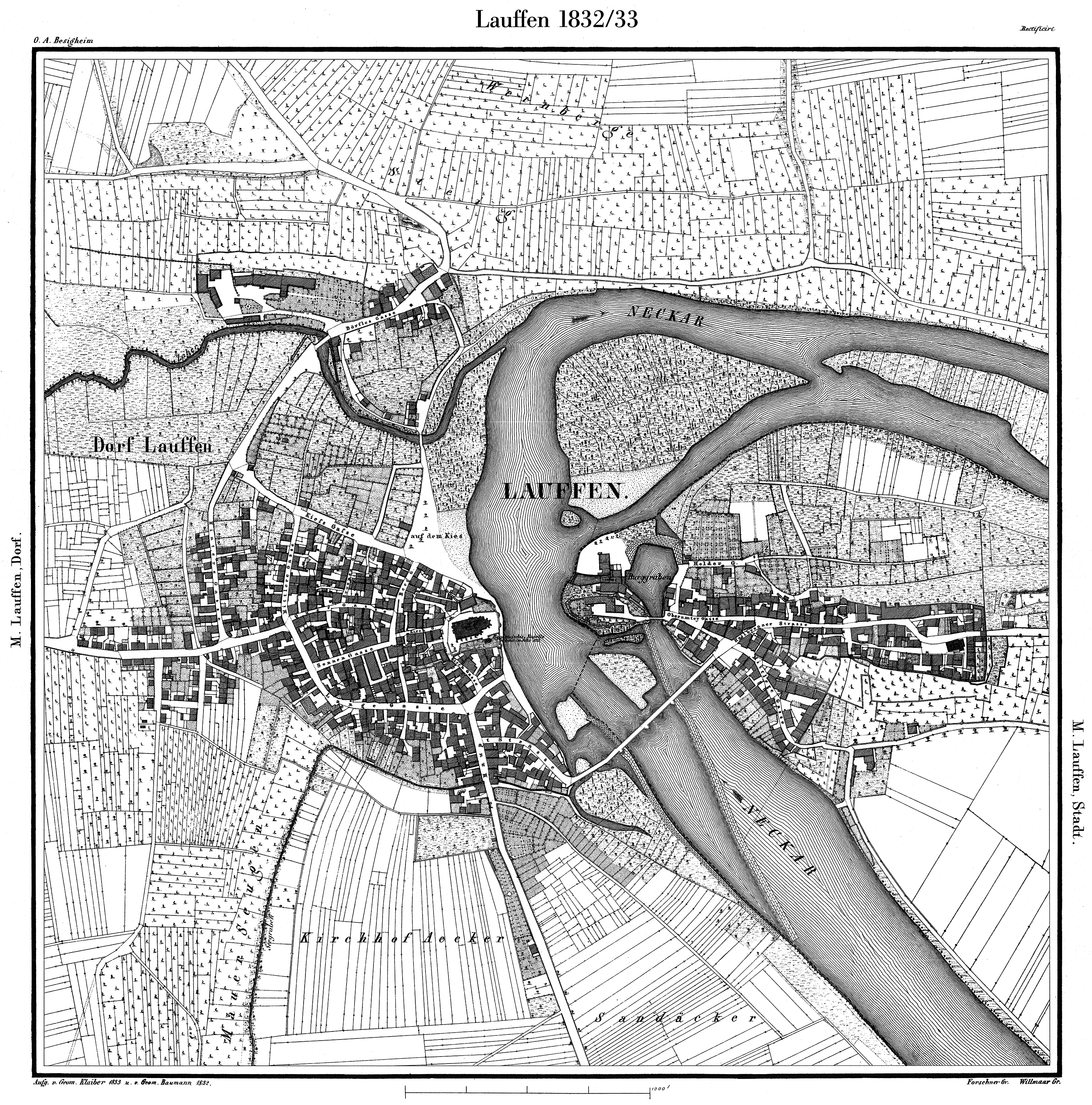 Map of Lauffen am Neckar of 1832/1833, scale 1:2500